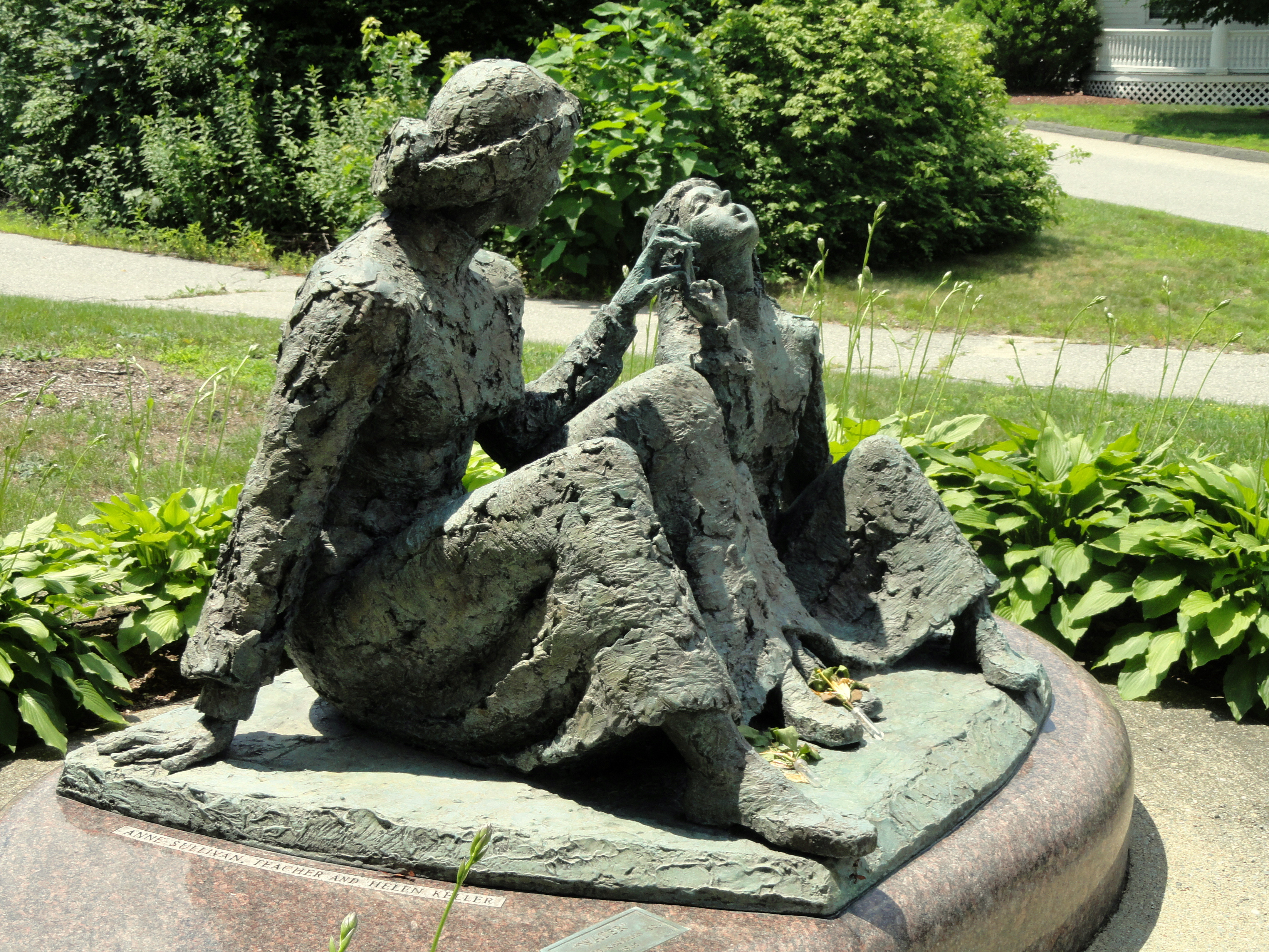 "Anne Sullivan—Helen Keller Memorial" — a bronze sculpture in Tewksbury, Massachusetts. (There is a similar sculpture, but on a rectangular base, in Feeding Hills, Massachusetts.) Anne Sullivan transformed the life of young Helen Keller in 1887 and stayed with her for 49 years, first as her teacher, then governess and companion.